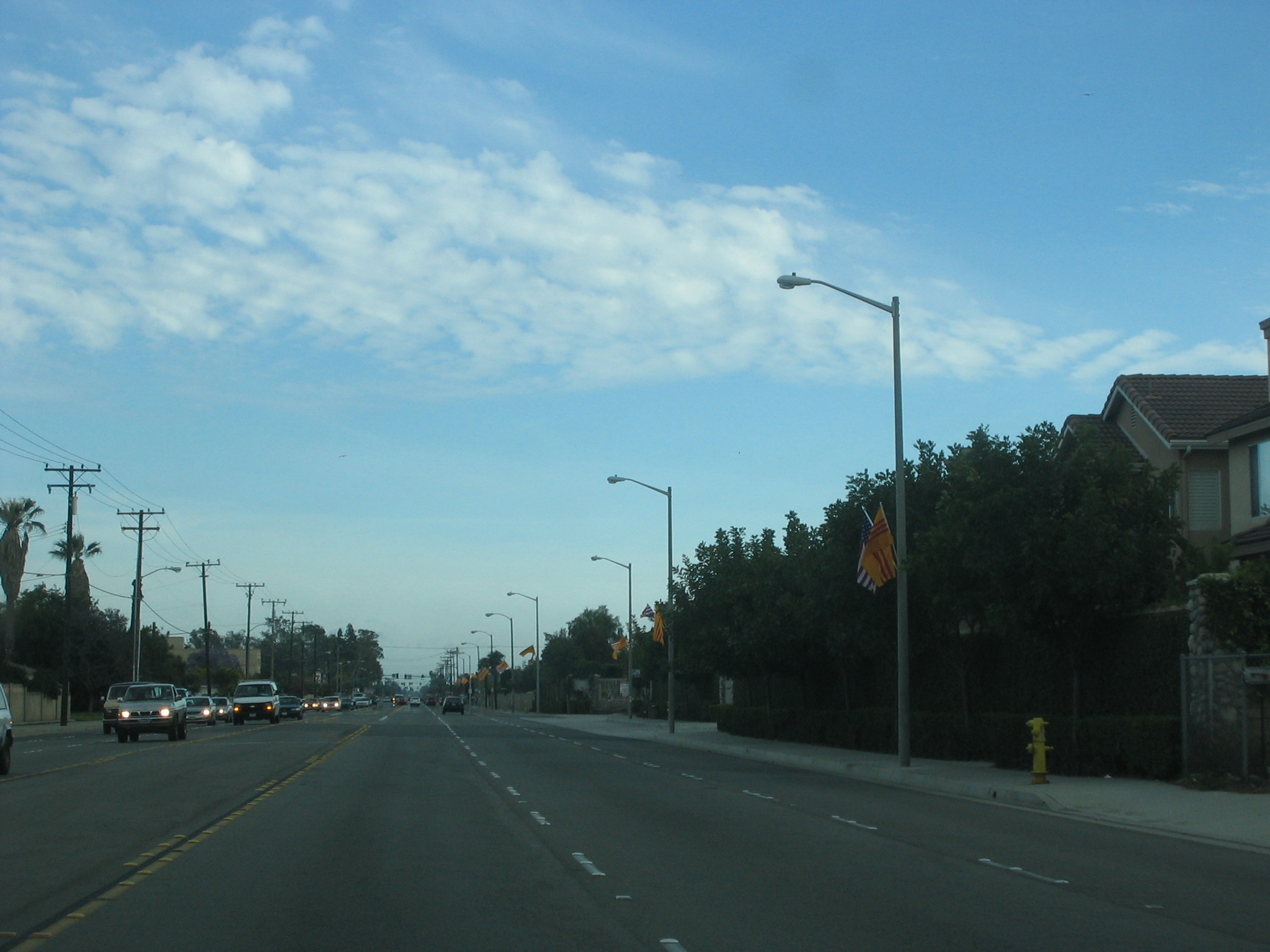 A street of Westminster, California (where many Vietnamese Americans live) festooned with the flags of the former South Vietnam and the United States.